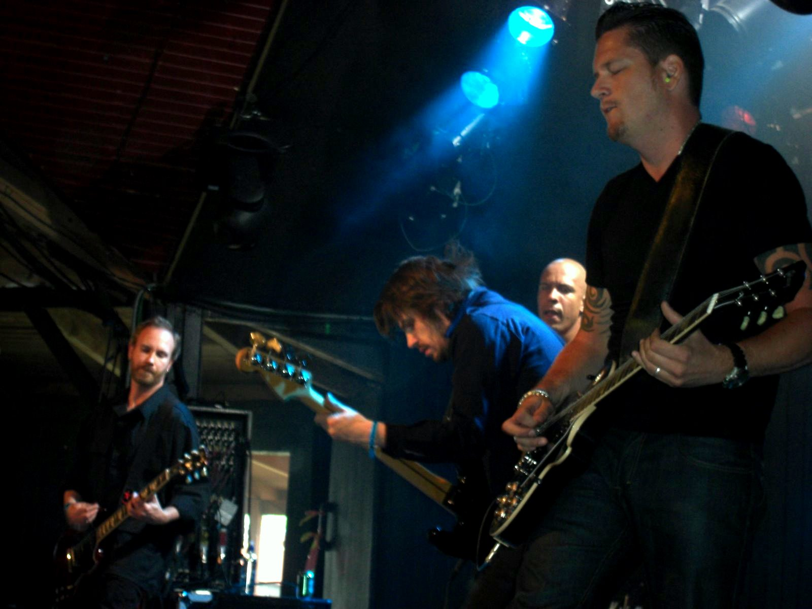 Swedish metal band Enter the Hunt at Hultsfredsfestivalen 2007. Björn Flodkvist (guitar), Ulf "Rockis" Ivarsson (bass), Krister Linder (vocals) and Mats Ståhl (guitar)